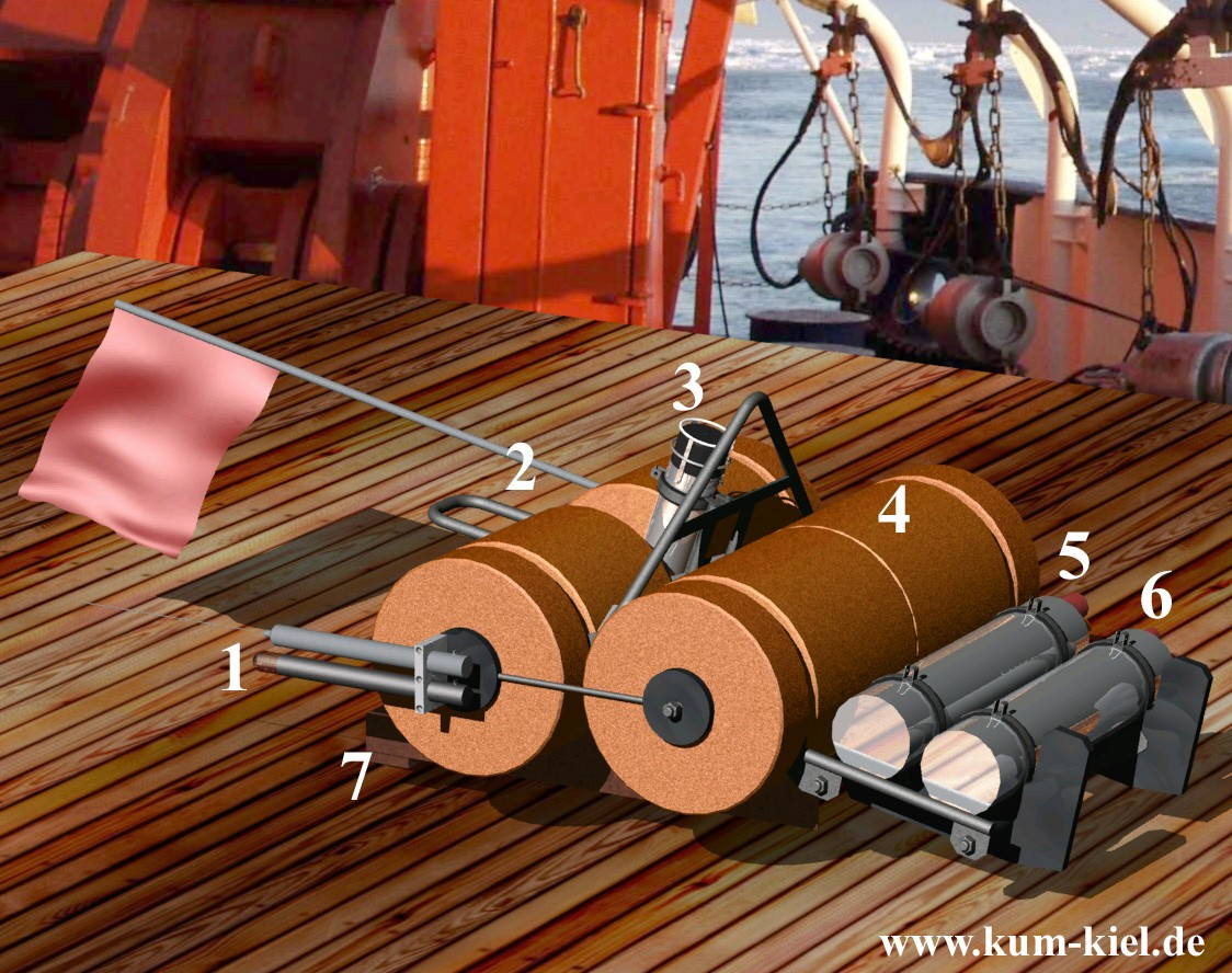 Ocean Bottom Seismometer, manufactured by kum-kiel.de, used by AWI-Bremerhaven.de